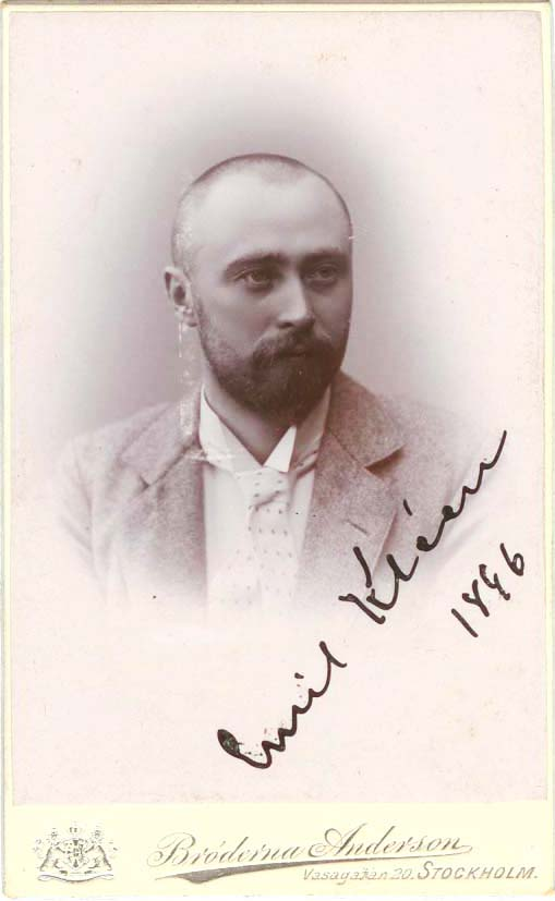 The swedish poet and journalist Emil Kléen (1868-1898) 1896. Photo taken in Stockholm. Scanned from the Mörner archive in Örebro, Sweden.